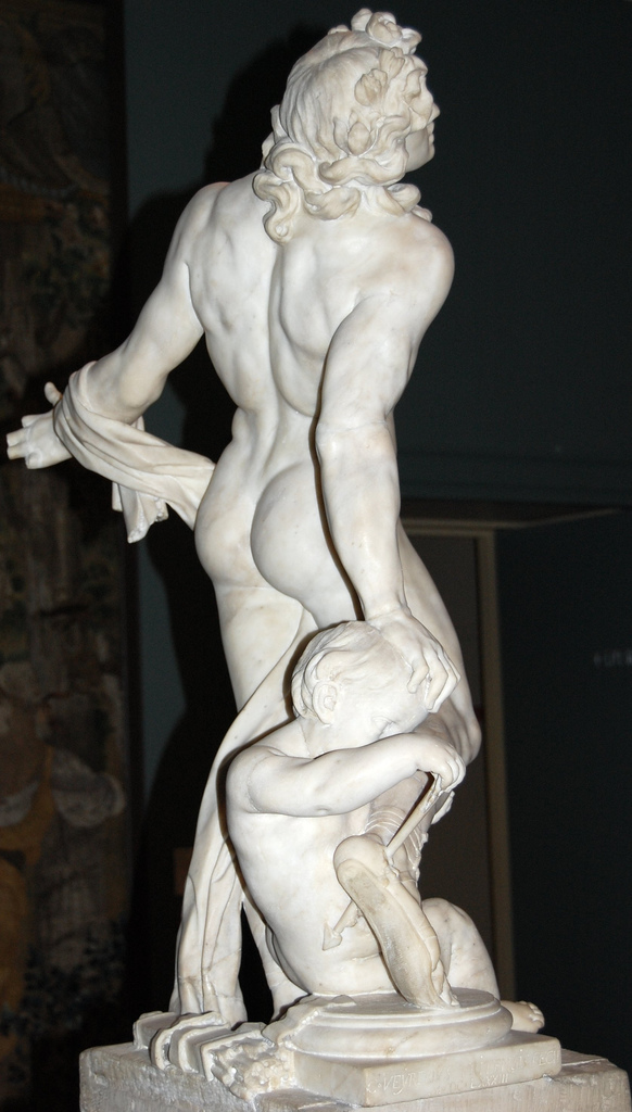 Statue of Dying Achilles (1683), Christophe Veyrier (1637 - 1689)Christophe Veyrier (1637 - 1689) Dying Achilles (1683) right, V and A 2007